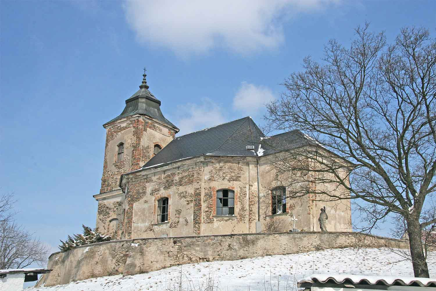 Dilapidating Baroque church of Assumption in Starkoč, Czech Republic.